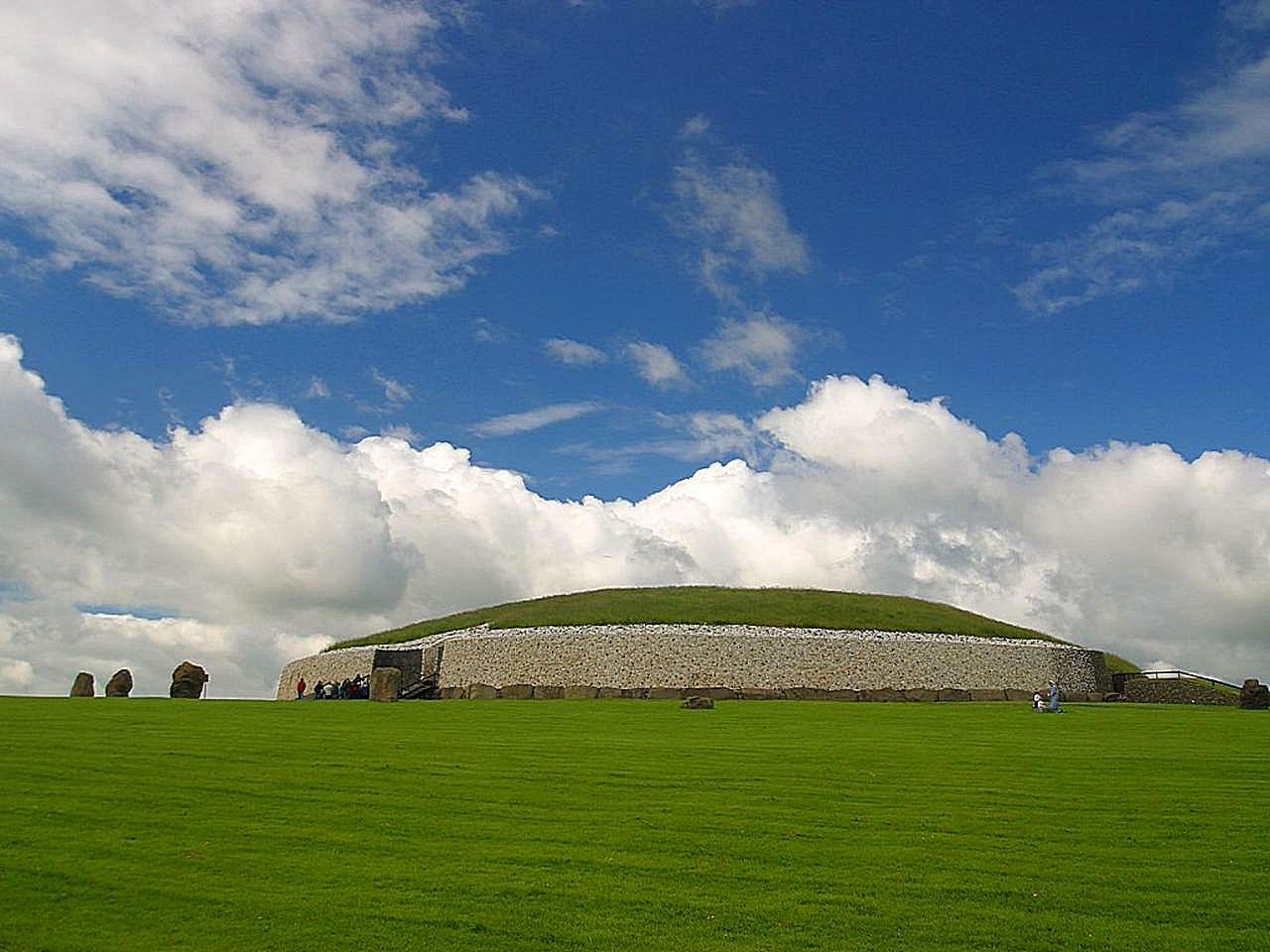 Image title: Newgrange passage tombs dolmens Image from Public domain images website